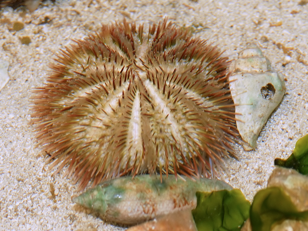 A Variegated Sea Urchin at St. Lucie County Marine Center in Fort Pierce, St. Lucie County, Florida, U.S.A.